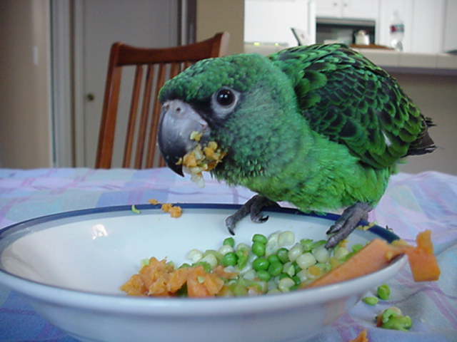 Fledgeling Lesser Jardines Parrot eating vegetables.